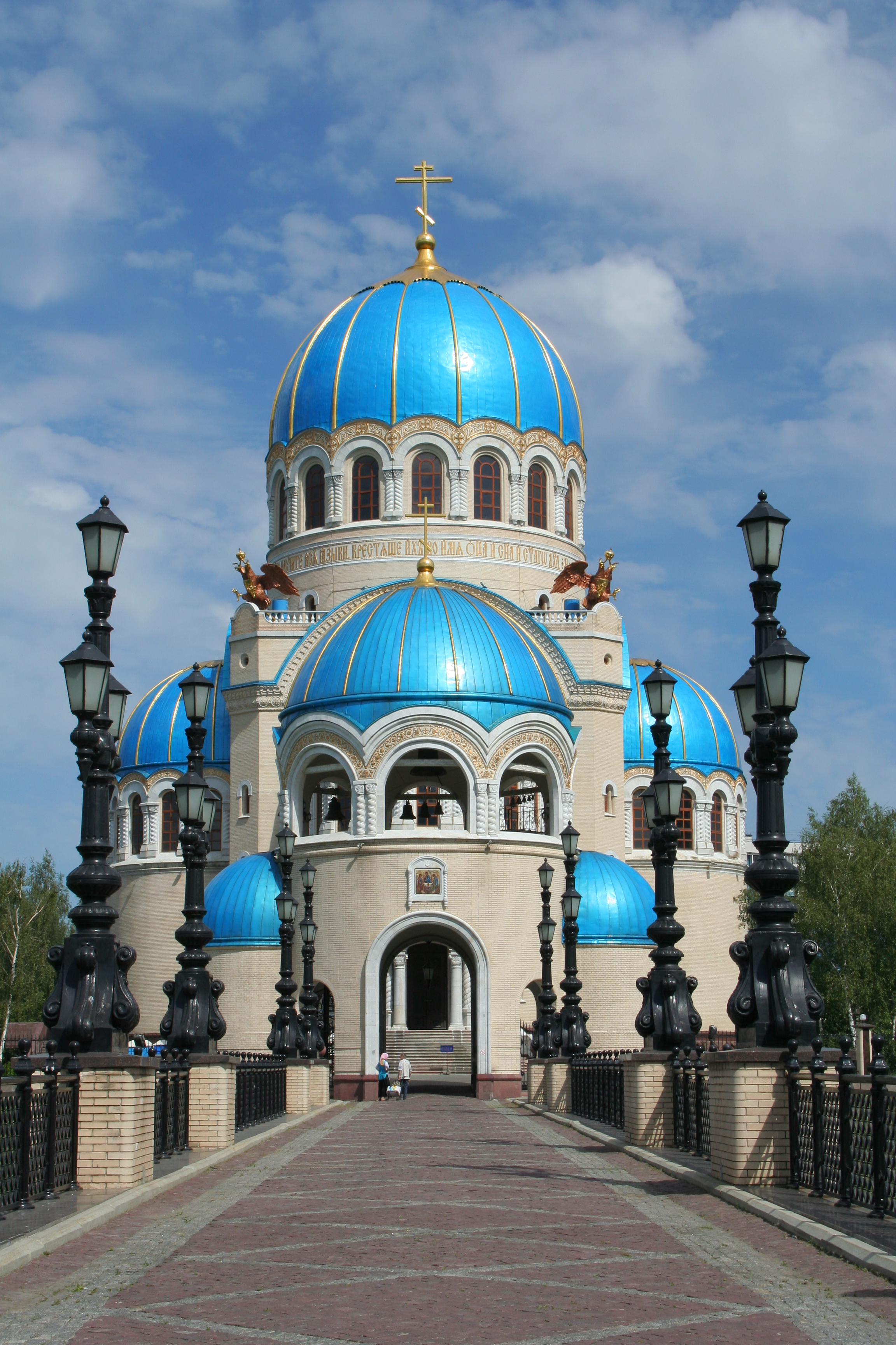 Church of Holy Trinity at the Borisov Ponds, Moscow.